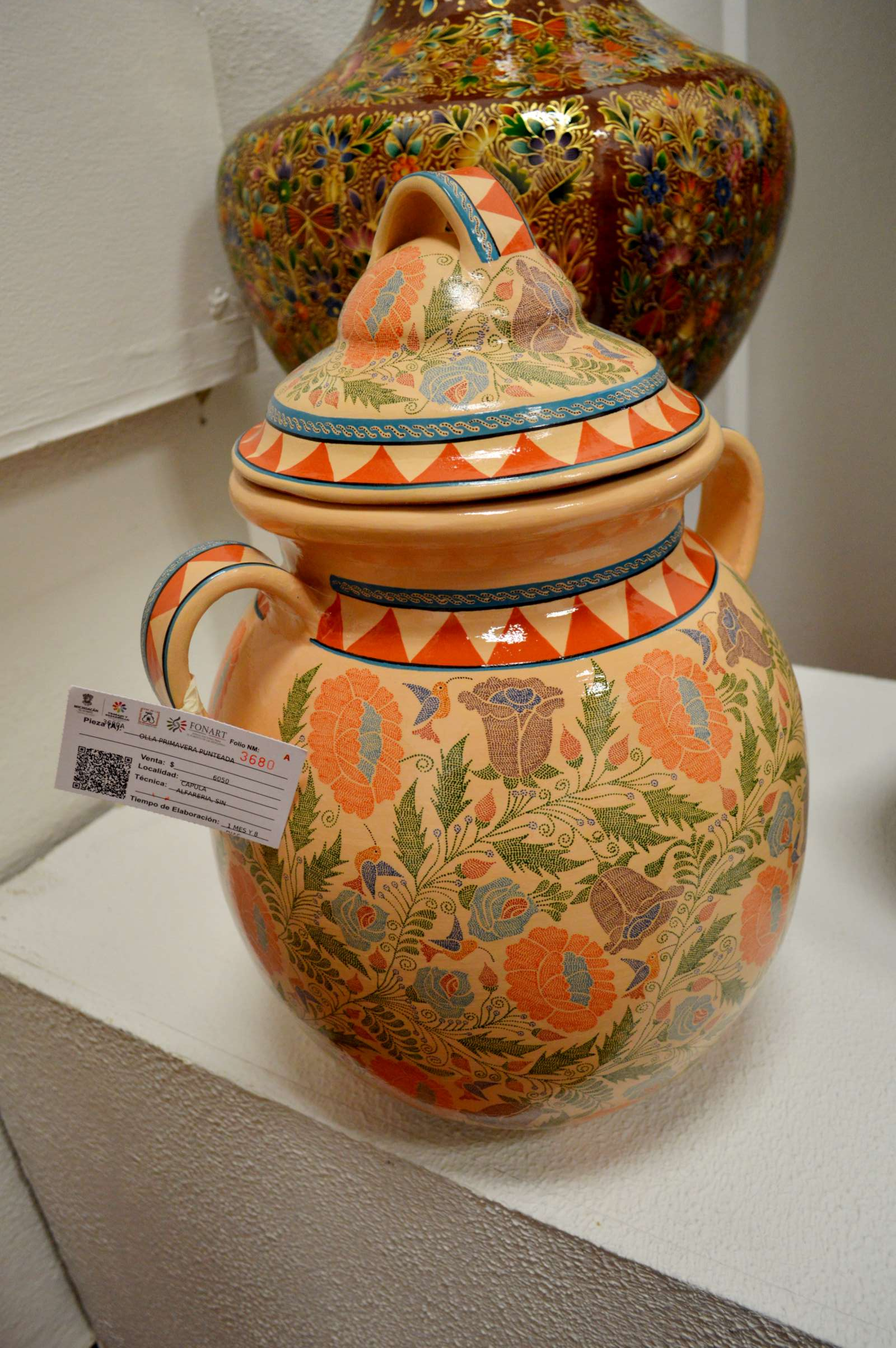 Punteada (dotted) ceramic piece from Capula, Michoacan participating in the annual state handcrafts competition at the Tianguis de Domingo de Ramos in Uruapan, Michoacan, Mexico